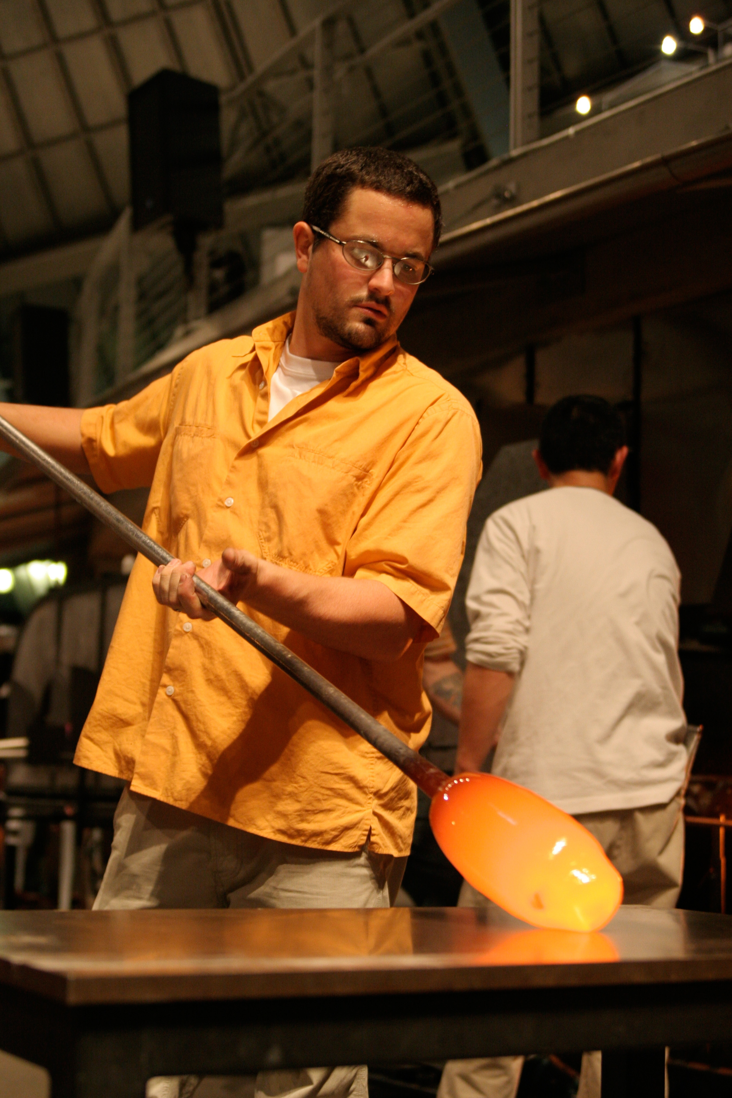 Glass Artist J.P. Canlis sculpting a glass bamboo installation